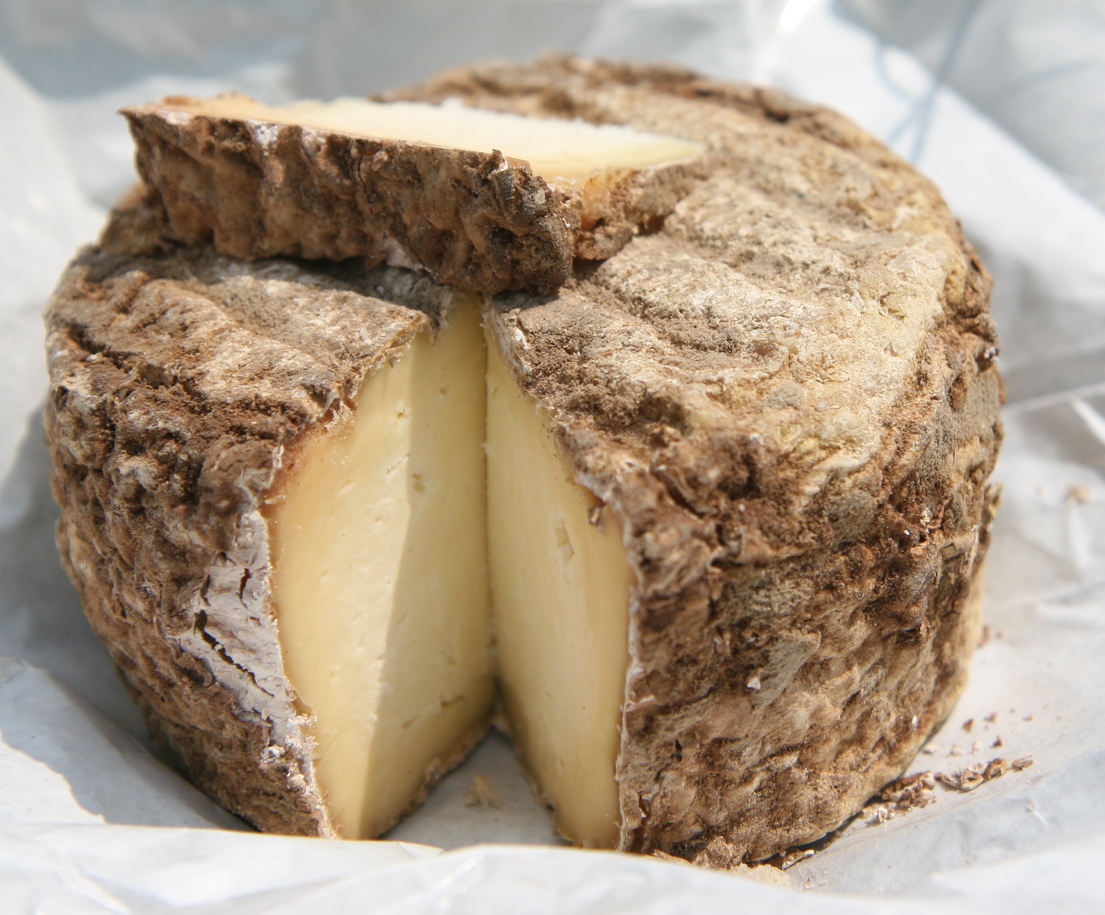 Artisanal cheese of Velay made from raw cow milk (Haute-loire, France) with tne acarina Acarus siro. This cheese is called "Fromage aux artisous"